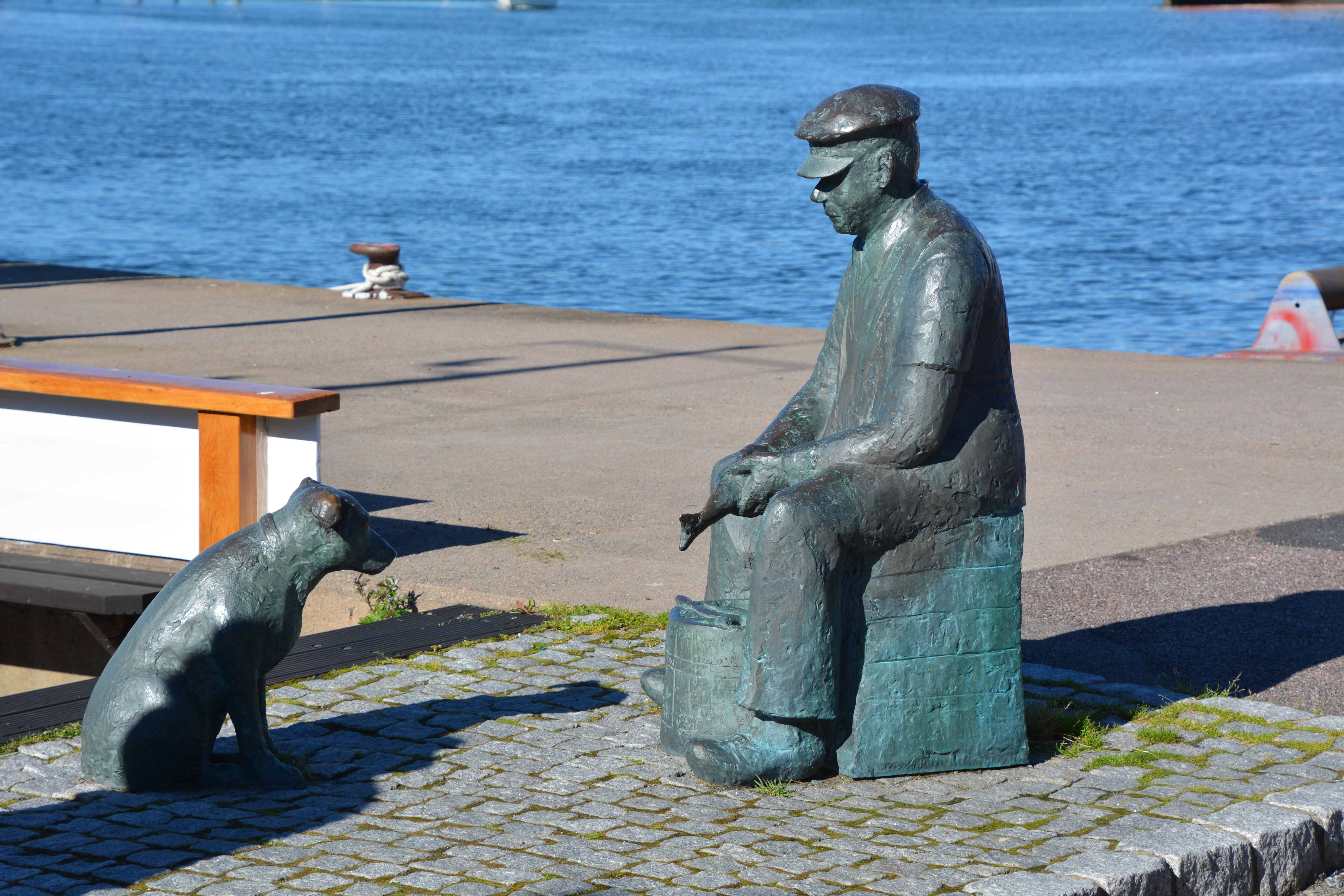 Detalj av Svenrobert Lundquists Skärgårdsfiskare i Donsö hamn